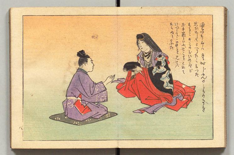 p. 8 Princess imparts Urashima Tarō with a tamatebako